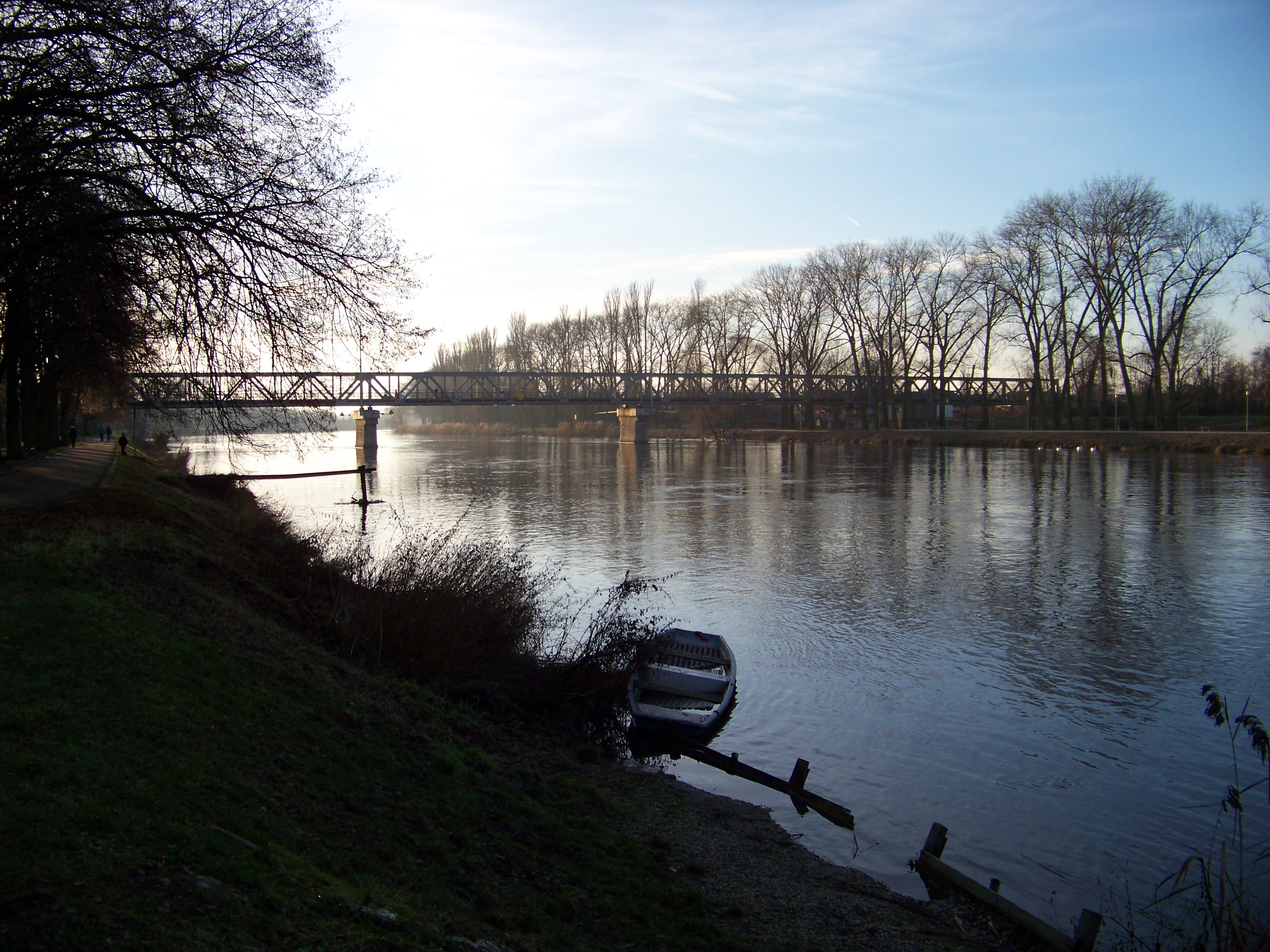 Nymburk, Nymburk District, Central Bohemian Region, Czech Republic. Elbe river, a railway bridge.